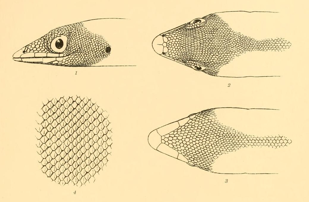 Illustration of head of Sphaerodactylus corticola specimen from Rum Cay, Bahamas (identified as S. corticolus). Fig. 1, lateral view; fig. 2, dorsal; fig. 3, ventral; fig. 4, dorsal scales from tip of snout to center of eye. Barbour, Thomas (1921). "Sphaerodactylus." Mem. Mus. Comp. Zool. 47:3, Pl. 18, Fig. 1-4.